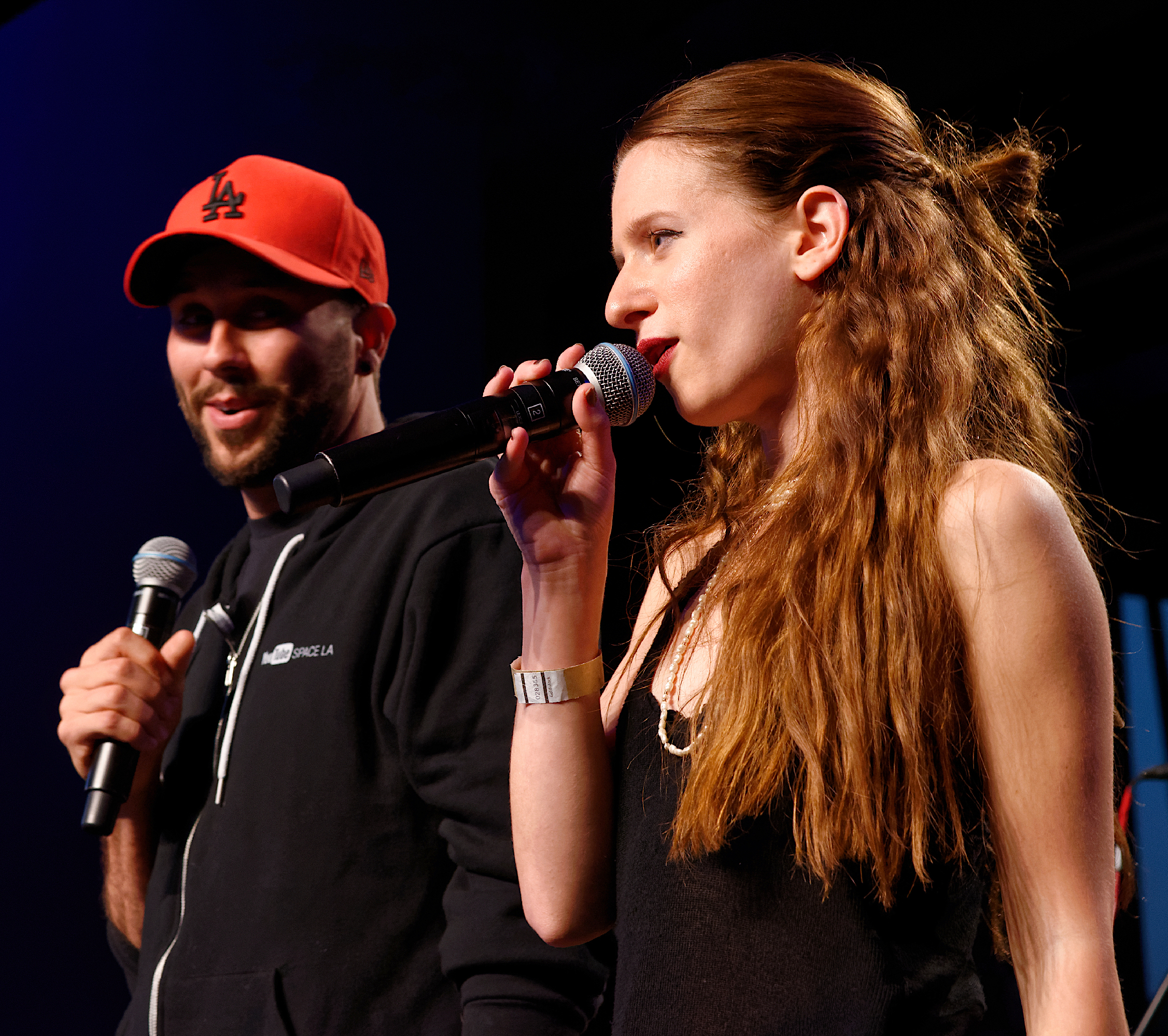 Marian Hill performing live at "Music Night" at YouTube Space L.A. in Playa Vista California on Wednesday June 15th, 2016.